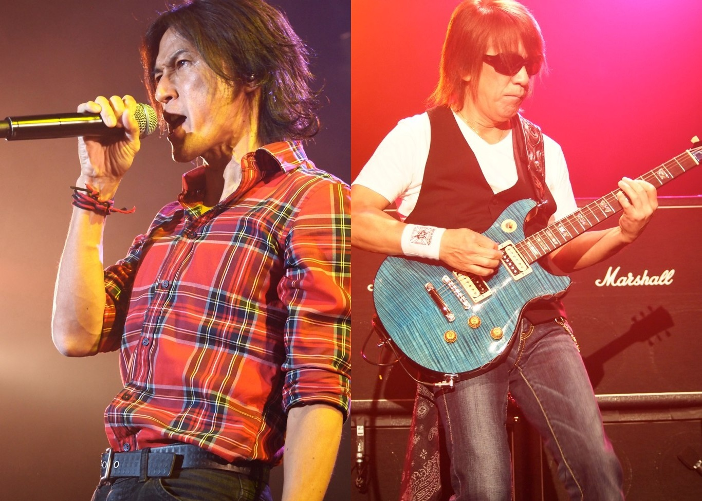 Koshi Inaba and Tak Matsumoto of B'z. A crop/montage derived from images with Creative Commons licenses on Wikimedia Commons.